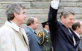 U.S. President Ronald Reagan waves just before he is shot outside a Washington hotel, Monday, March 30, 1981. From left are Secret Service Agent Jerry Parr, in raincoat, who pushed Reagan into the limousine; White House Press Secretary James Brady, who was seriously wounded; and Reagan.